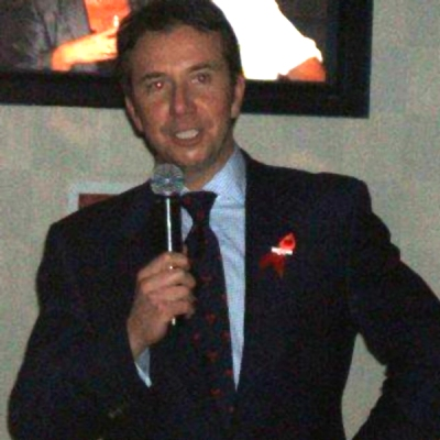 Scott Brison at a Young Liberal event, November 2007